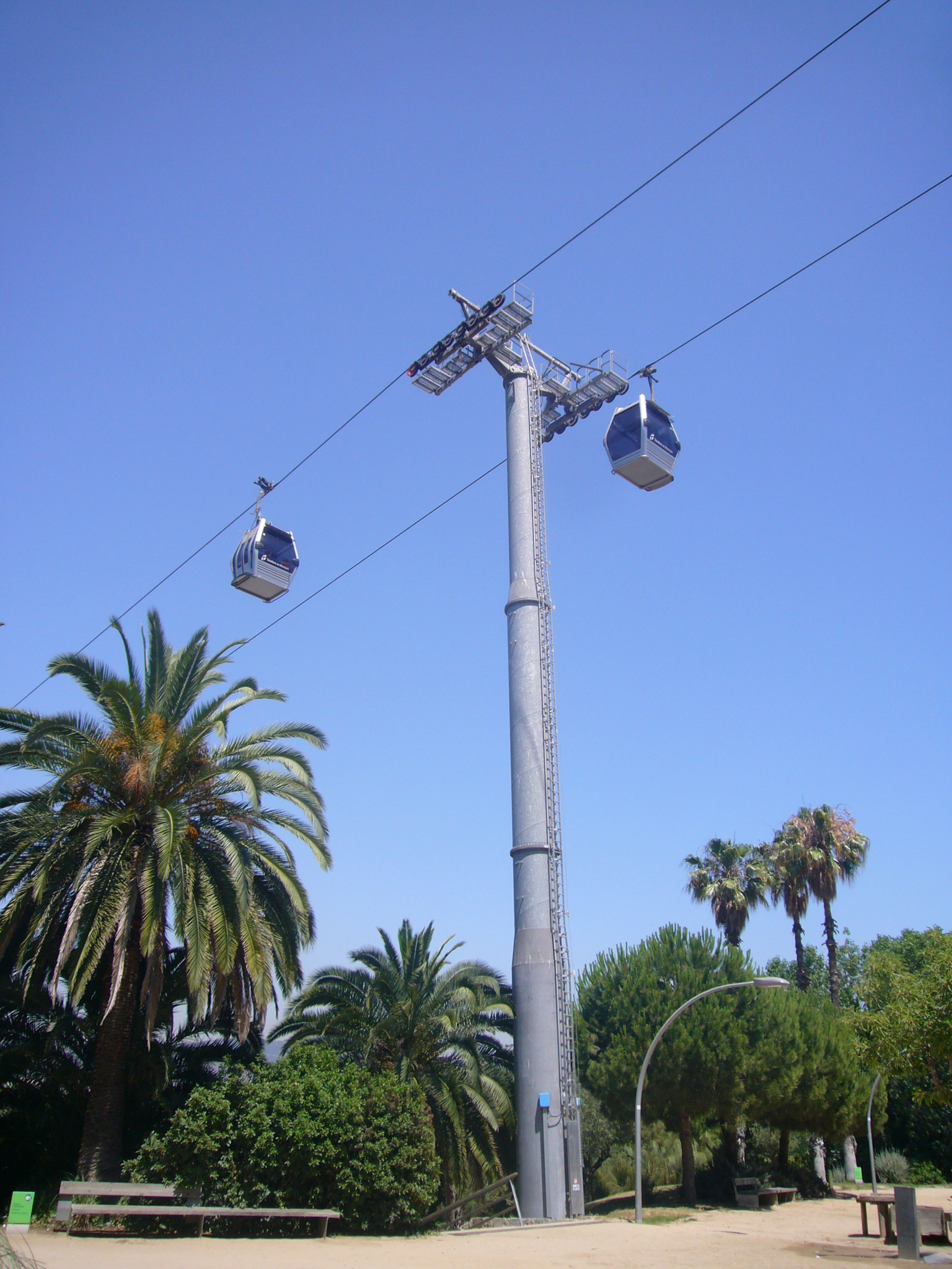 Gardens of Joan Brossa.